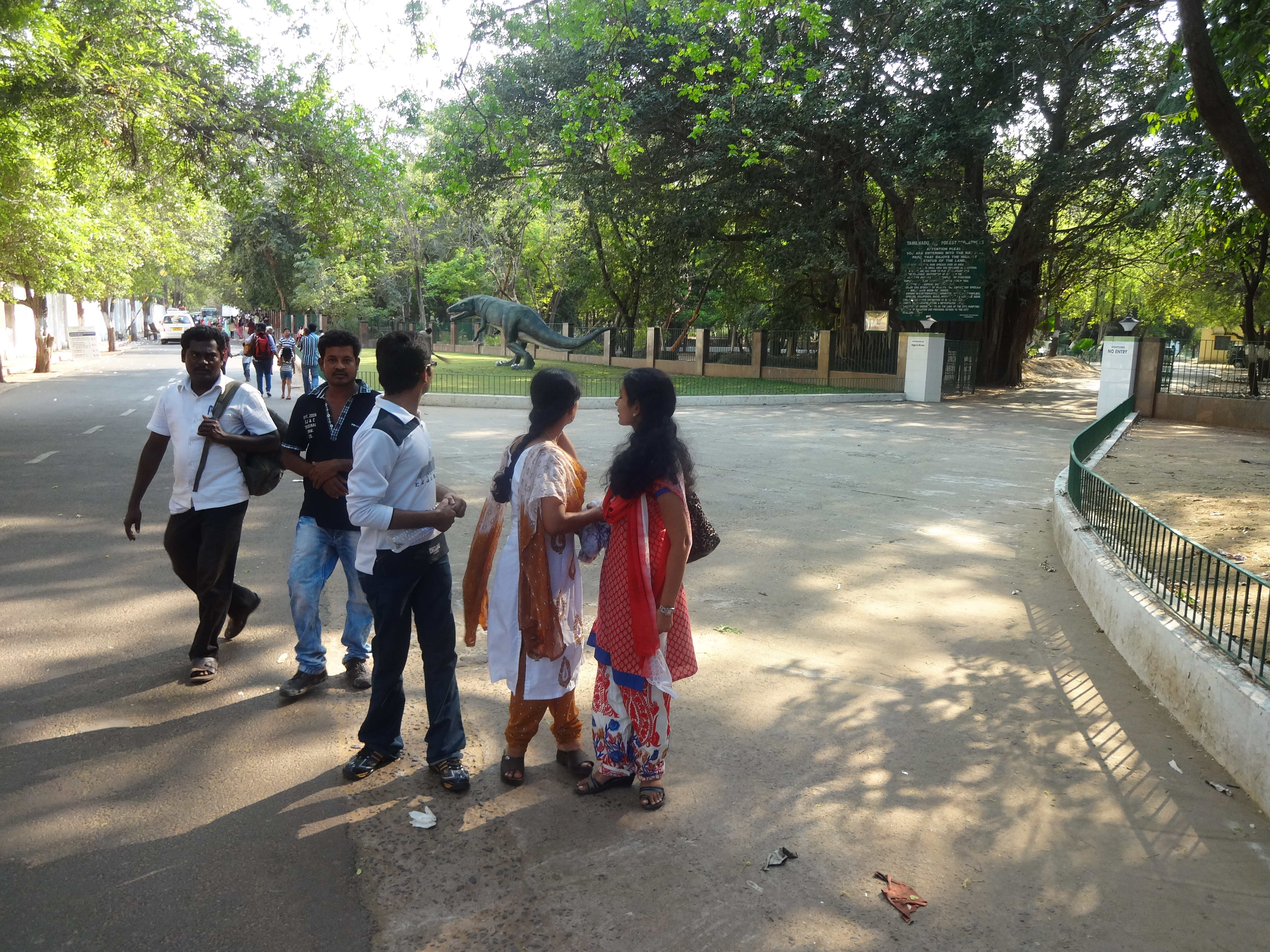 This is the entrance of Guindy National Park